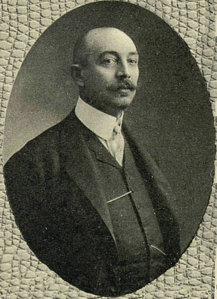 Stanisław Wańkowicz, Polish landlord, a member of the Third Russian State Duma, 1907-1912